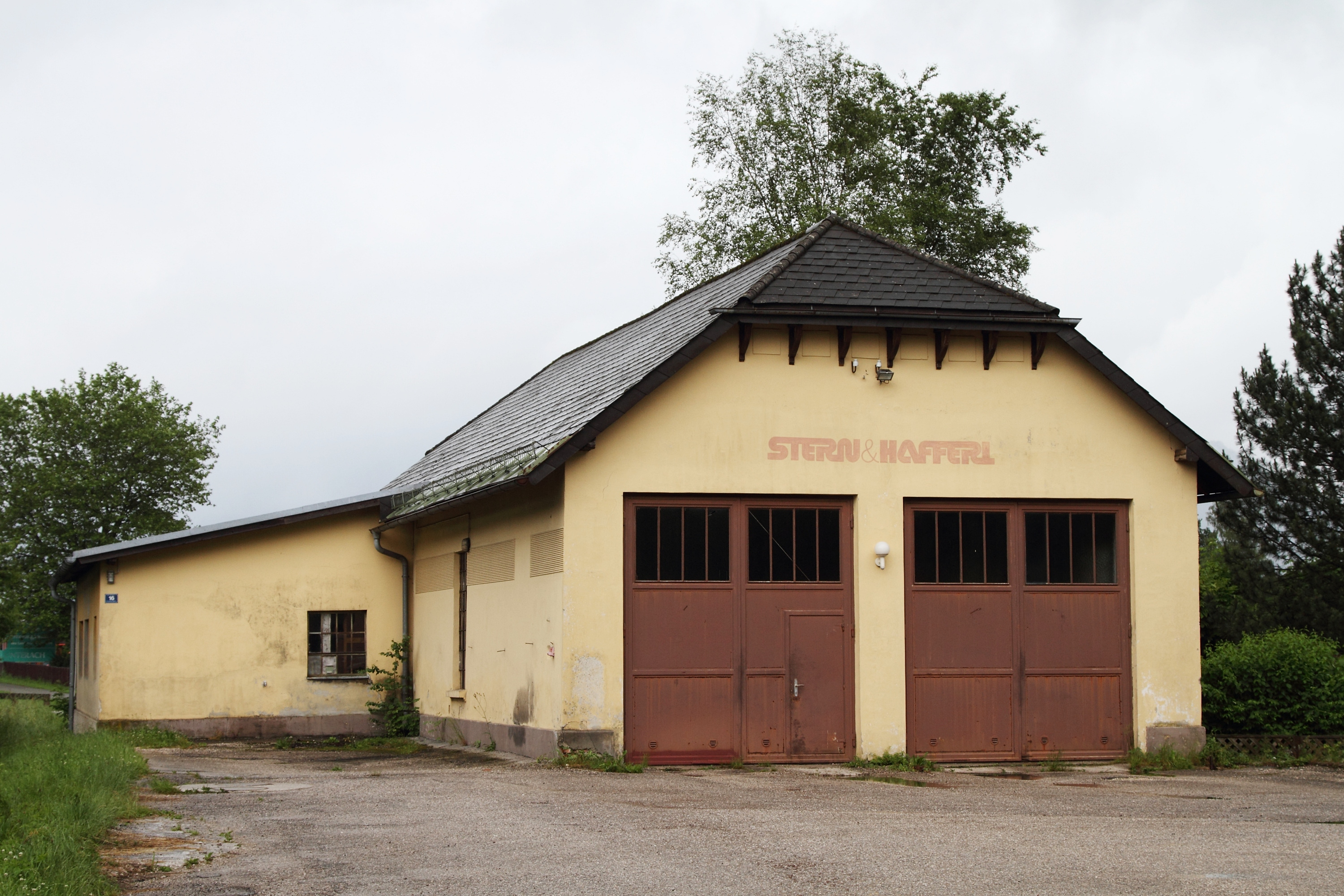 Carriage shed of the Tramway Unterach–See in Unterach, closed in 1949. The building is still used as a bus garage.